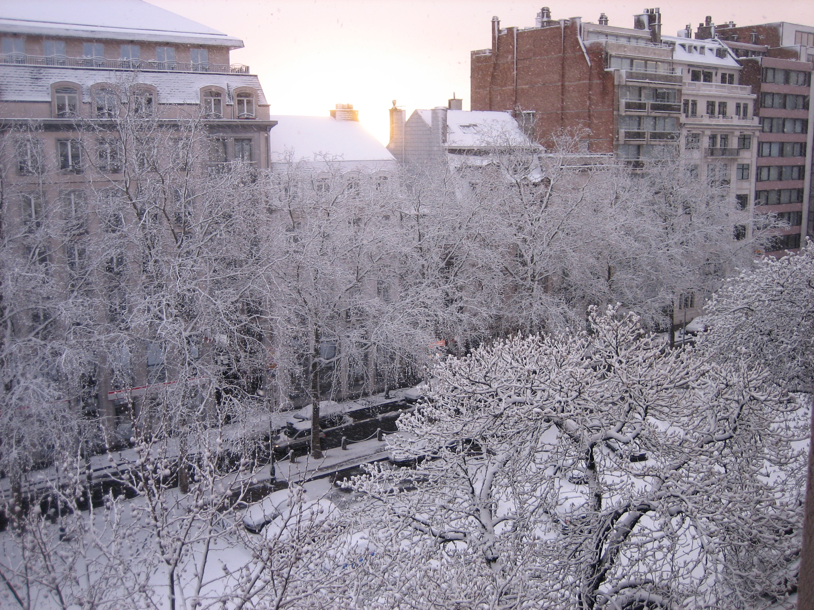 View on Avenue Louise in Brussels (winter)